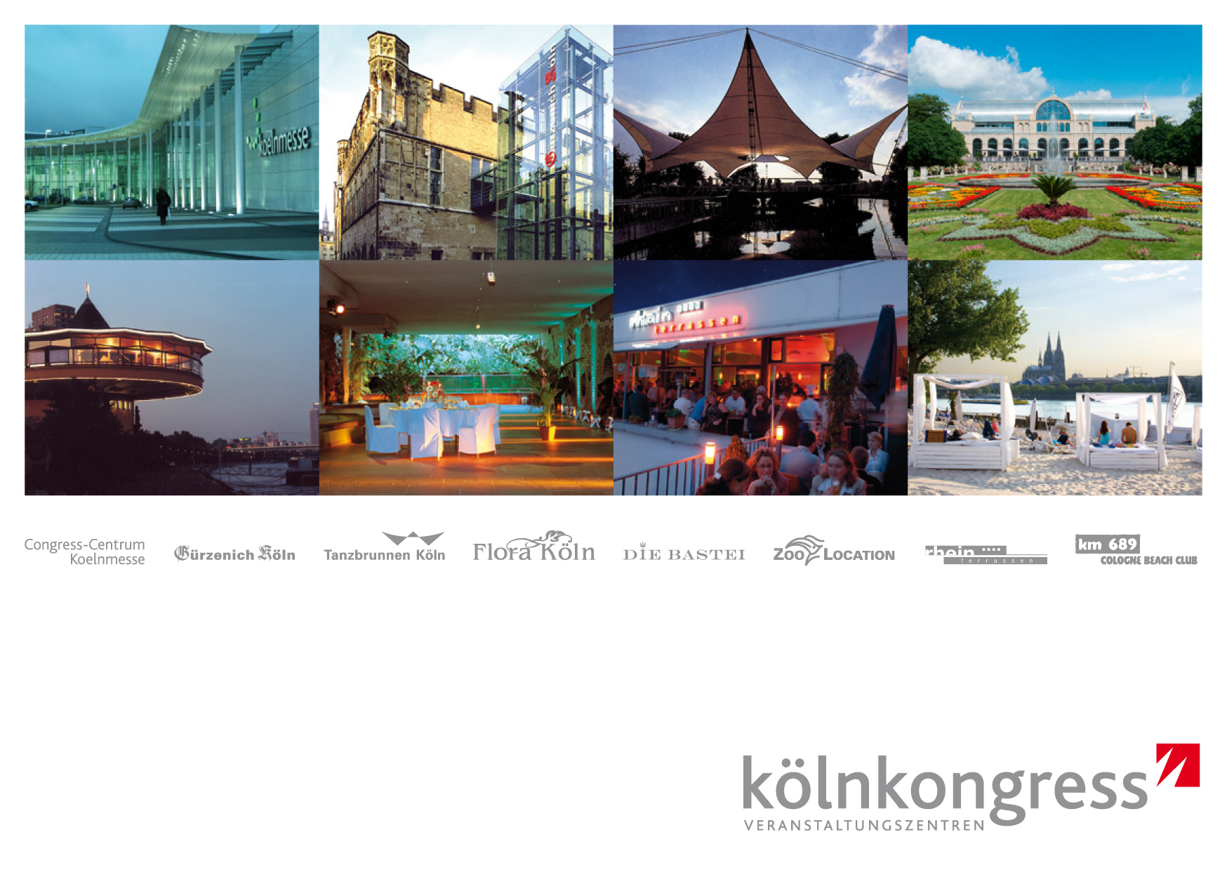 KölnKongress Postkarte